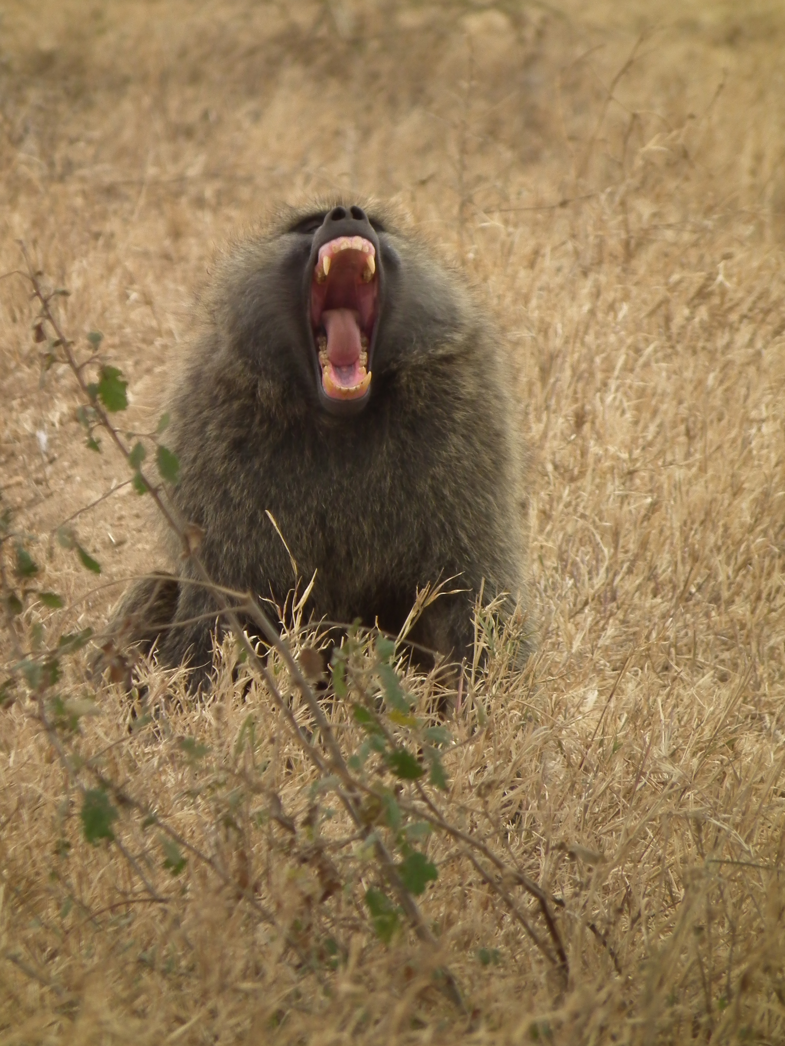 Olive Baboon Papio anubis, picture taken in Tanzania